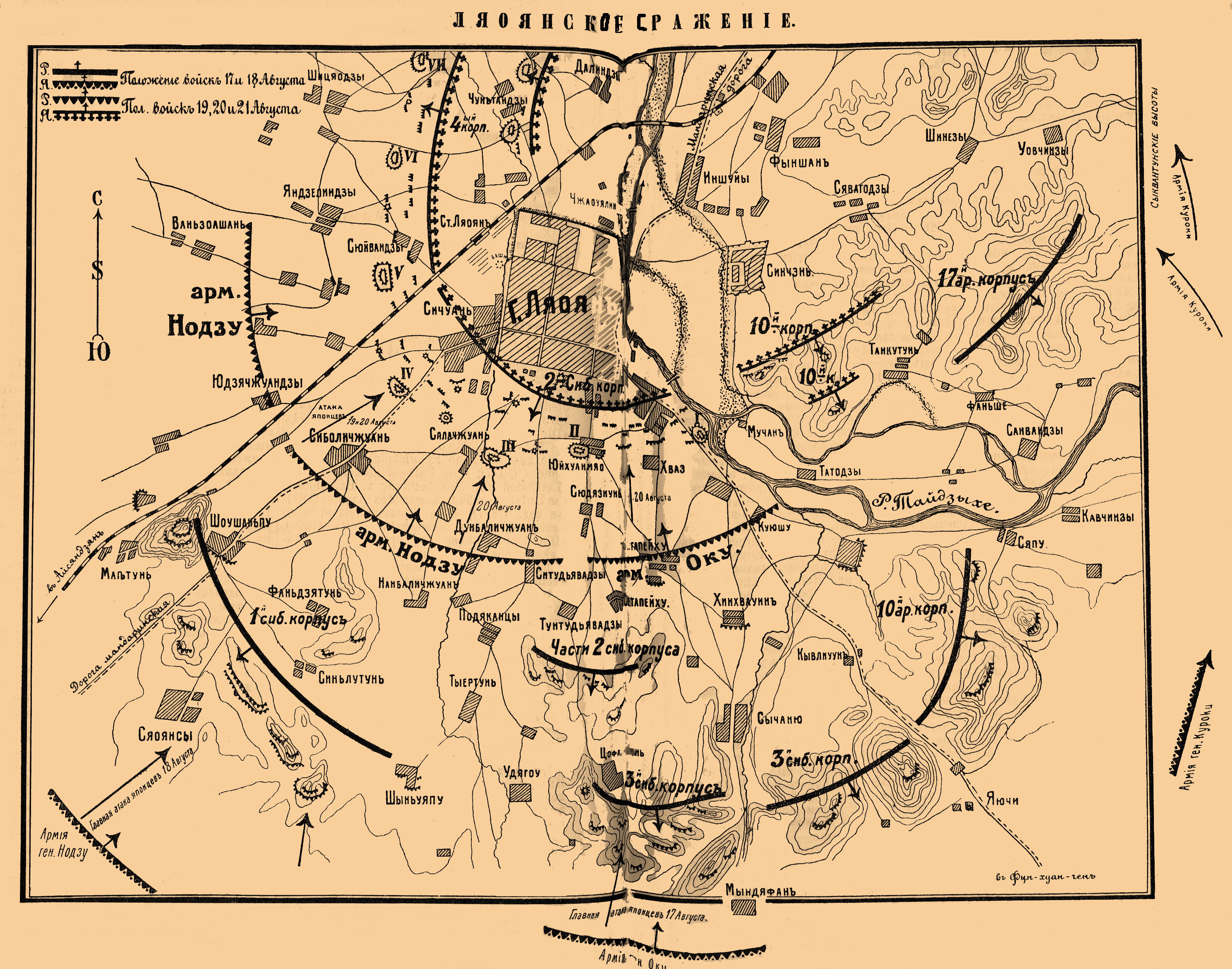 Illustration from Brockhaus and Efron Encyclopedic Dictionary (1890—1907)